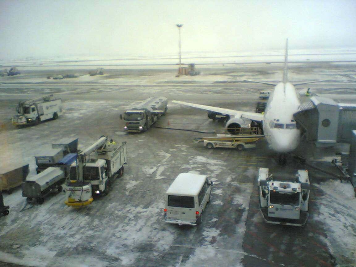 A Boeing 737 at Helsinki-Vantaa Airport (EFHK) in Vantaa, Finland